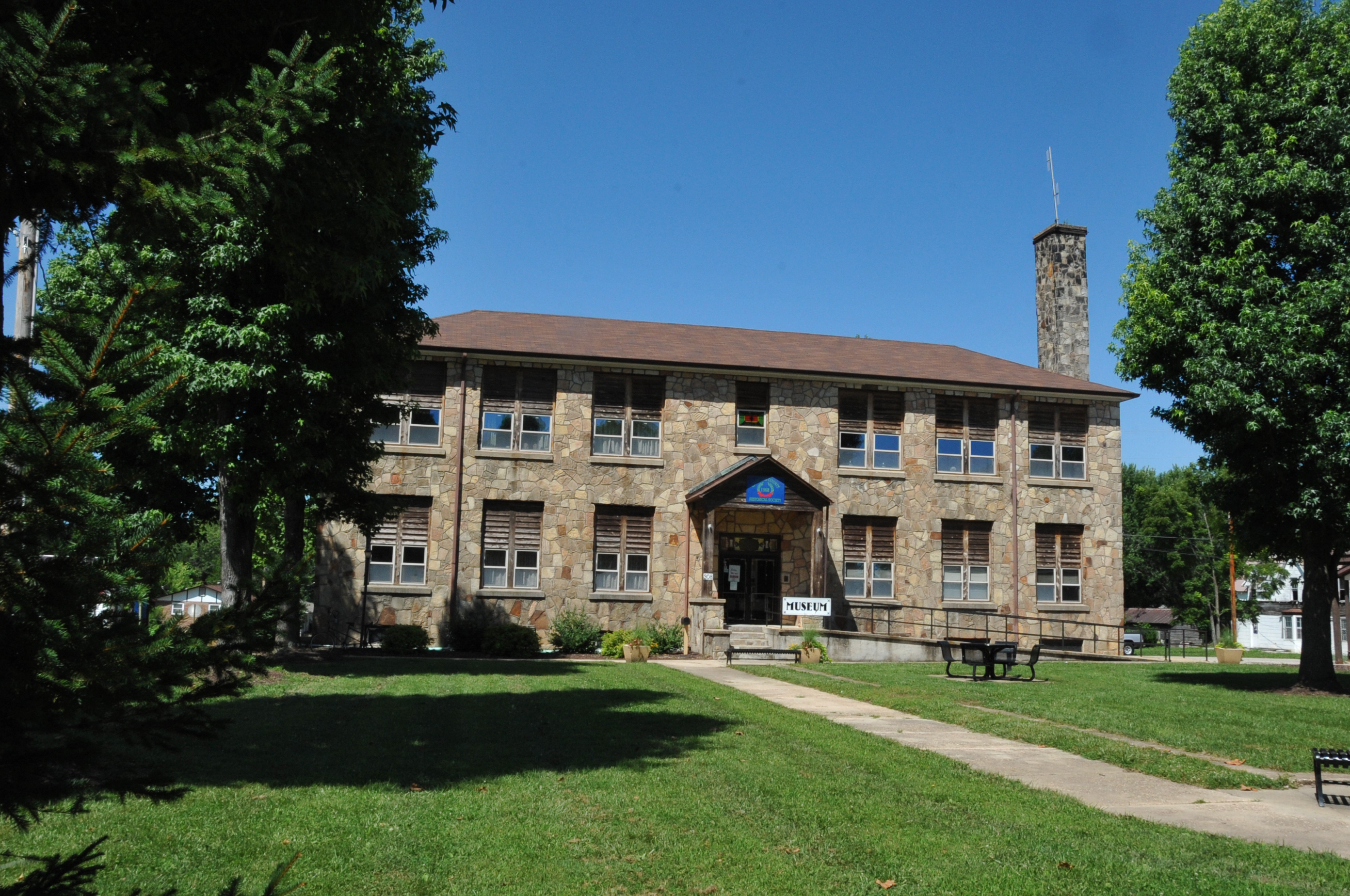 Built in 1934 and is an example of Ozark rock construction; the 1905 high school stood in fron t of this building but is no longer extant; it is now used as a museum by the Crawford County Historical Society.